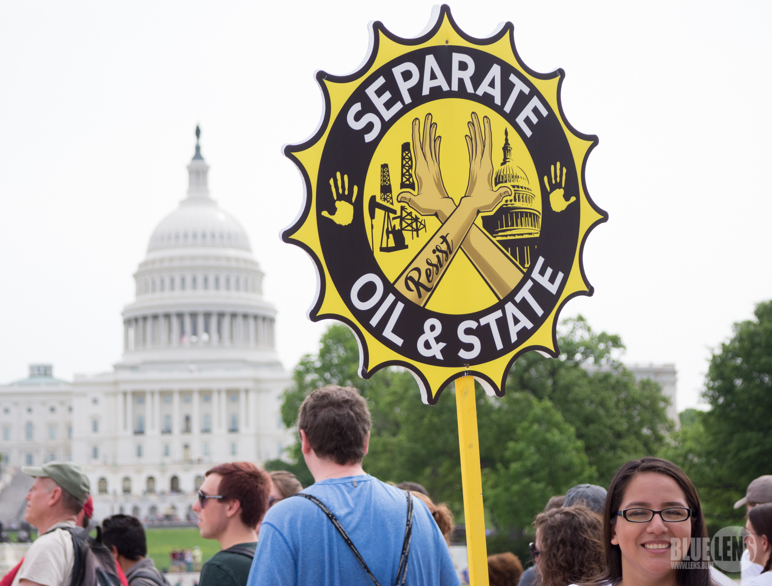 Placard "Separate oil and state", at the People's Climate March 2017 (29 April 2017).